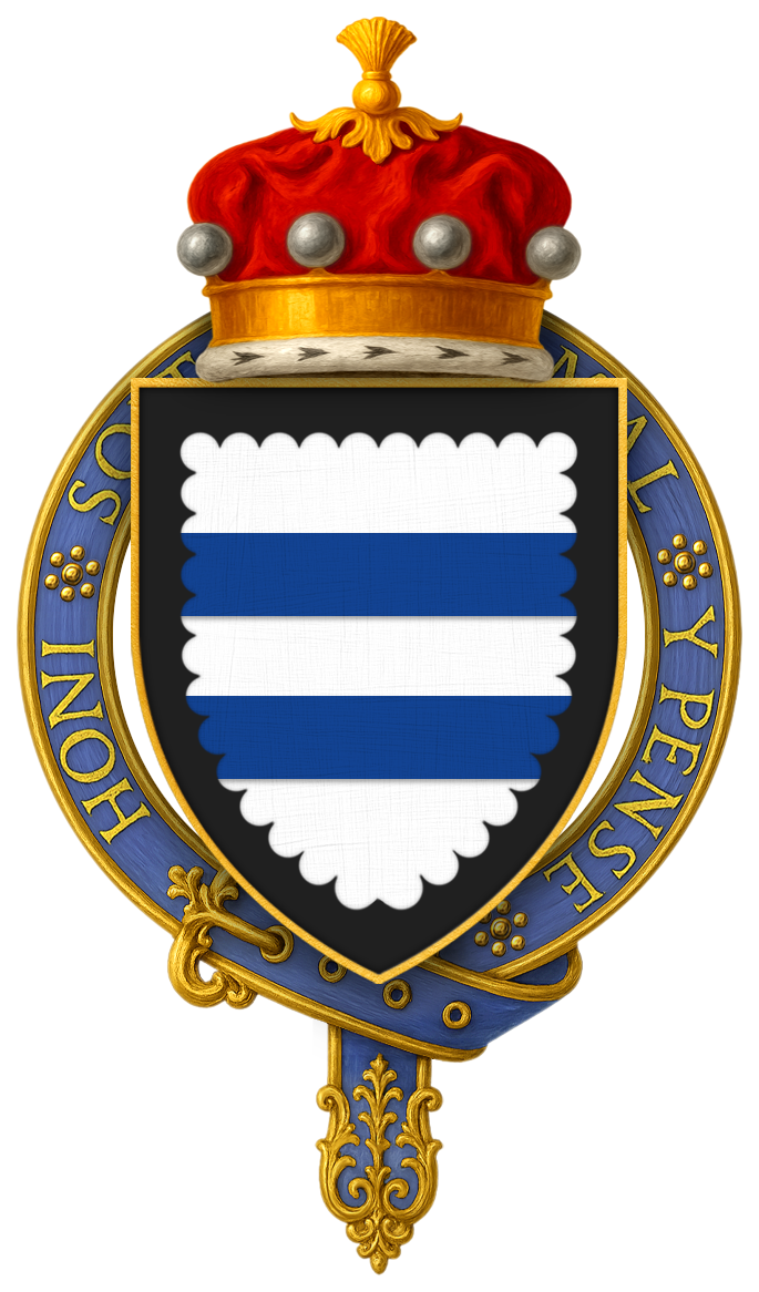 Sir William Parr, 1st Baron Parr-of Kendal, KG BURKE, Sir Bernard, The General Armory of England, Scotland, Ireland, and Wales; Comprising a Registry of Armorial Bearings from the Earliest to the Present Time, London: Harrison & Sons, 1884. “ Parr (Kendal, co. Westmorland… ). Ar. two bars az. within a bordure engr. sa. ”